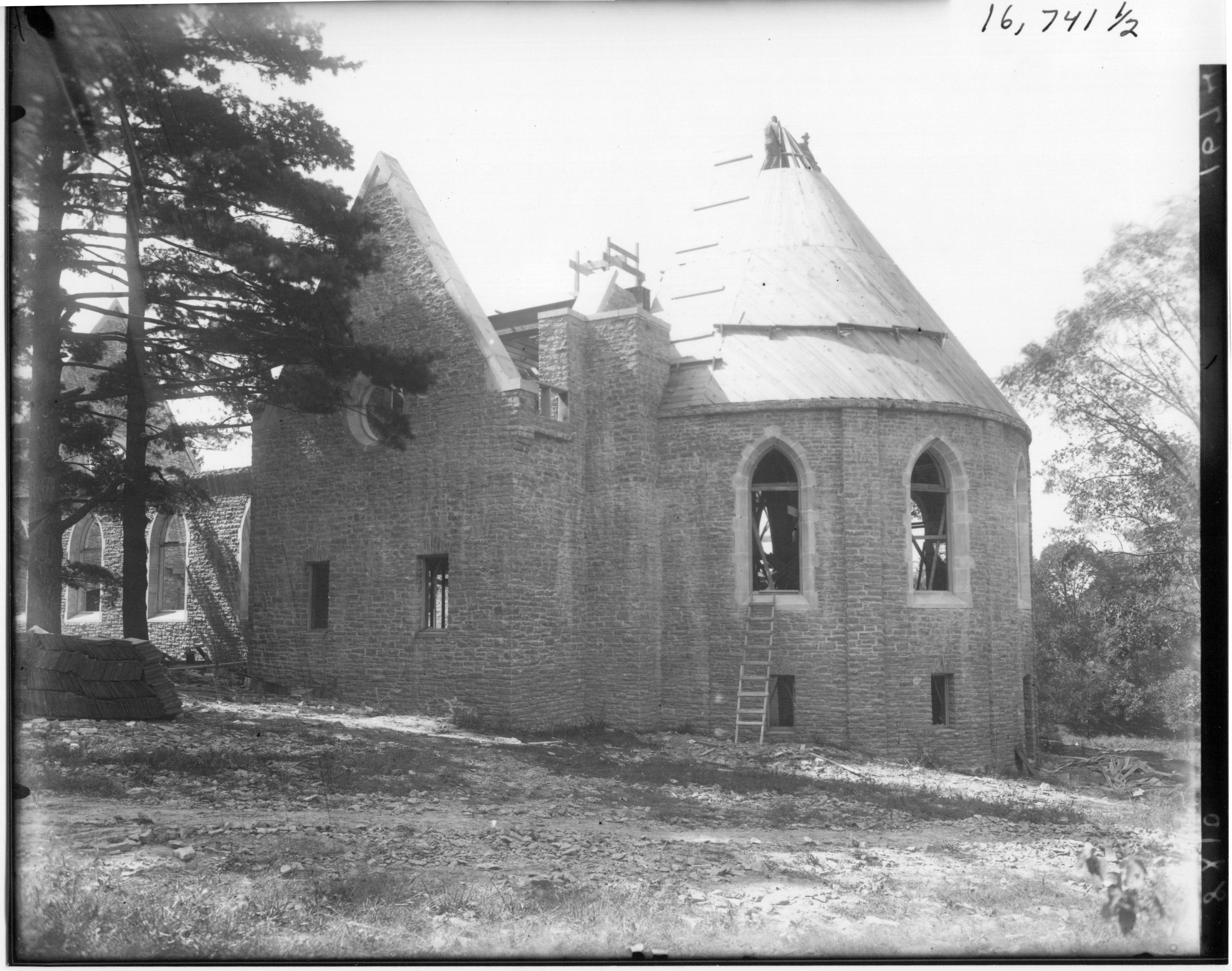 Persistent URL: Subject (TGM): Chapels; Buildings; Construction; Universities and colleges; Location: Oxford, Ohio Western College